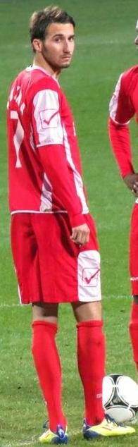 Photo - Slovak footballer Kamil Kuzma